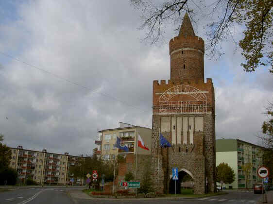 Banie Gate in Gryfino, Poland